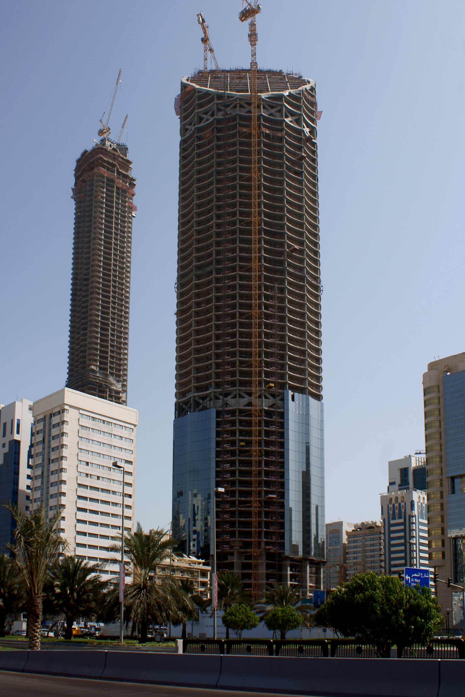 Trust Tower in Abu Dhabi